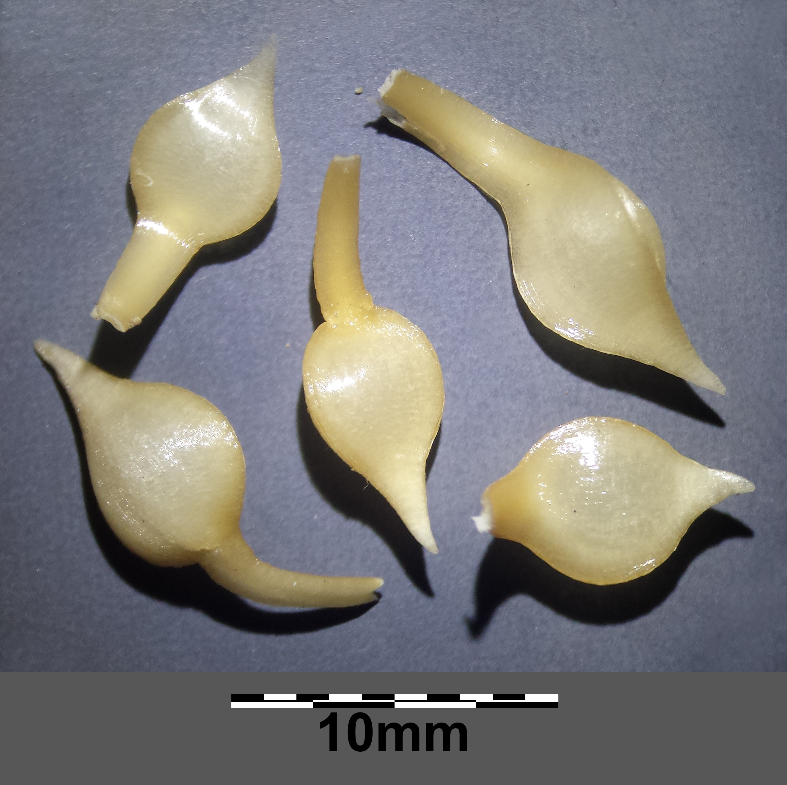 Bulblets Taxonym: Allium vineale ss Fischer et al. EfÖLS 2008 ISBN 978-3-85474-187-9 Location: near Kaltenleutgeben, district Mödling, Lower Austria - ca. 430 m a.s.l. Habitat: meadows